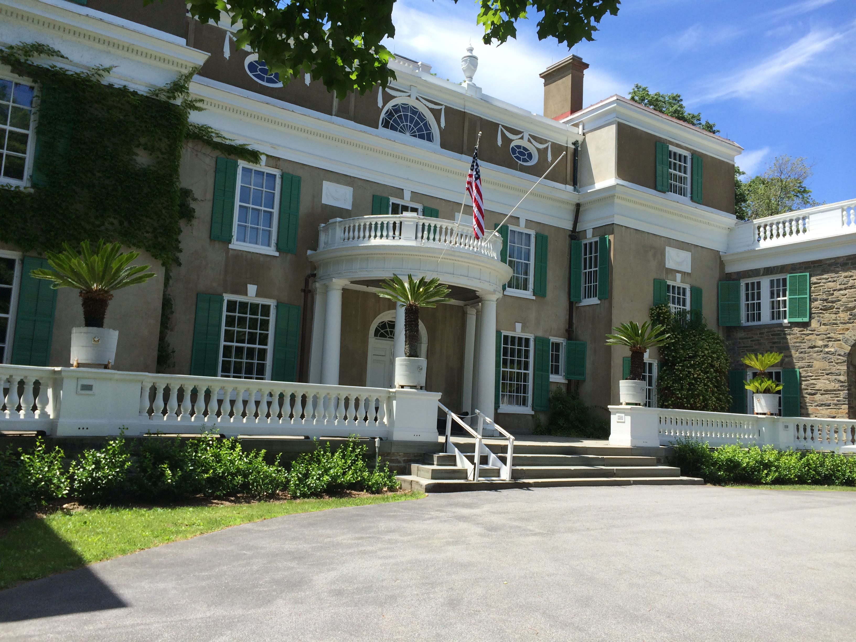 Springwood Estate in Hyde Park New York at the Home of Franklin D. Roosevelt National Historic Site.